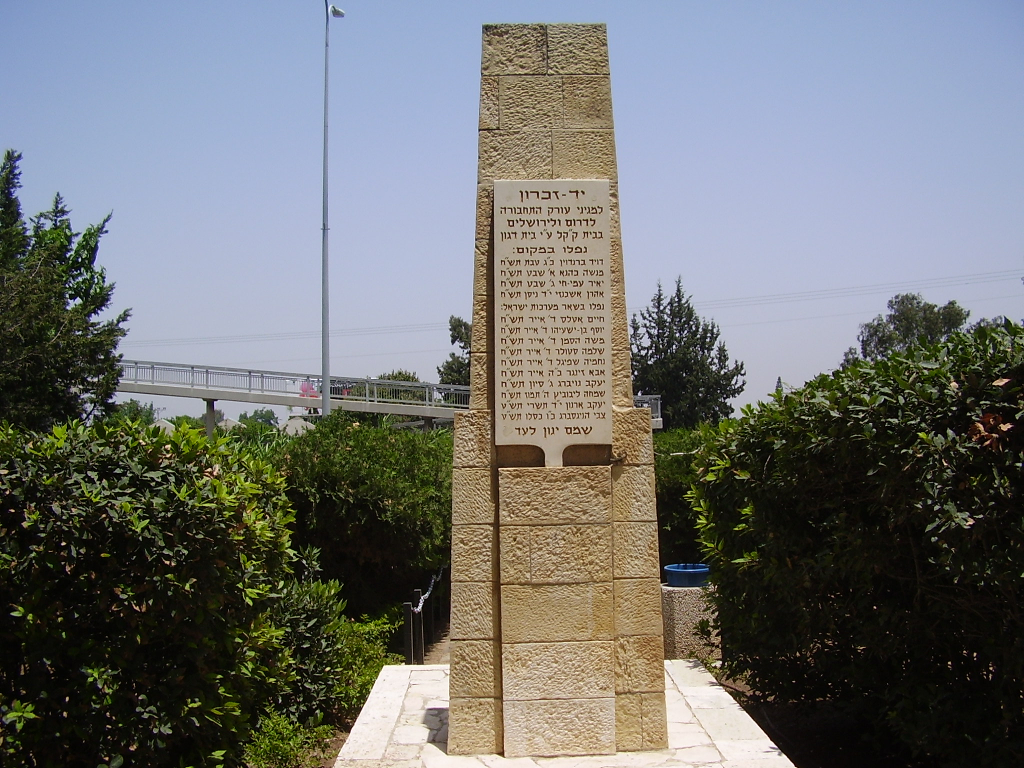 independence war memorial in beit-dagan